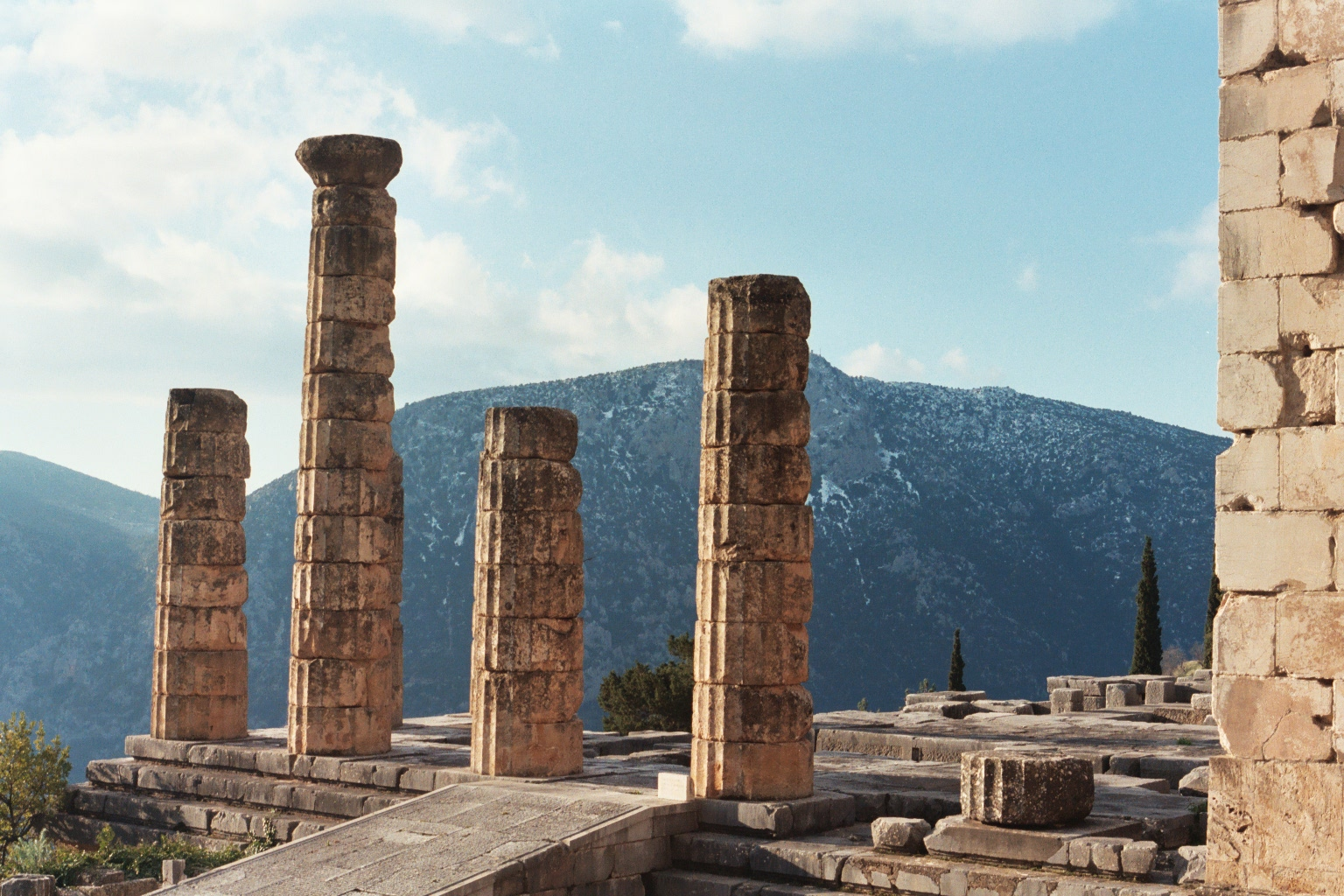 Temple of Apollo at Delphi from side